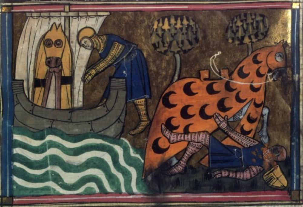 Miniature taken from ms. 60 français of the BnF, depicting Turnus killing Pallas and taking his boat.